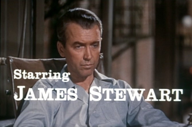 Cropped screenshot of James Stewart from the trailer for the film Rear Window